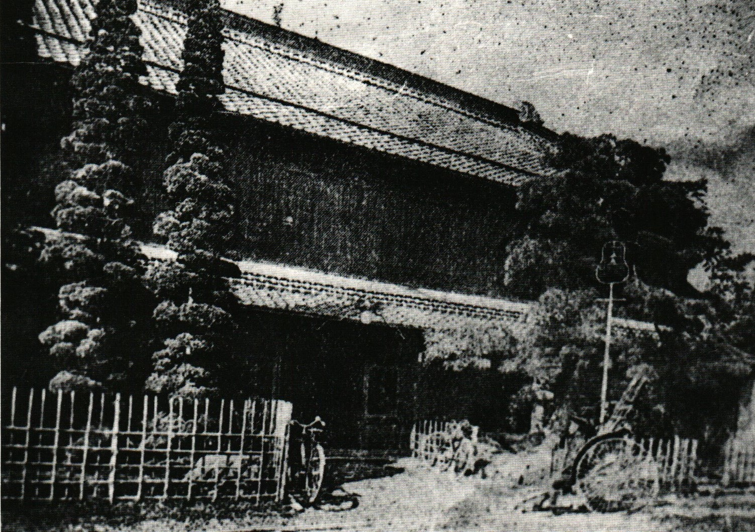 Anagiri-Yukaku was a Akasen district (red-light district) in Kōfu, Yamanashi, Japan